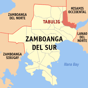 Map of Zamboanga del Sur showing the location of Tambulig